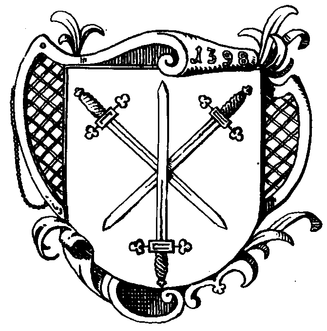 Mogilno. Coat of arms